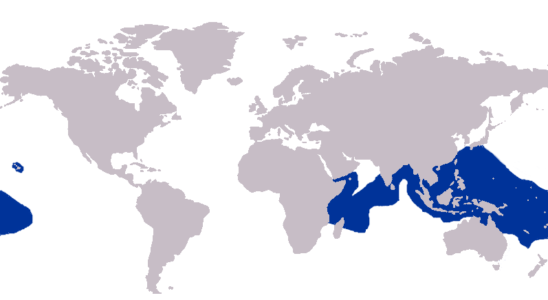 Distribution of the bluestripe snapper, Lutjanus kasmira using map based on GDFL image: Based on Allen (1985)